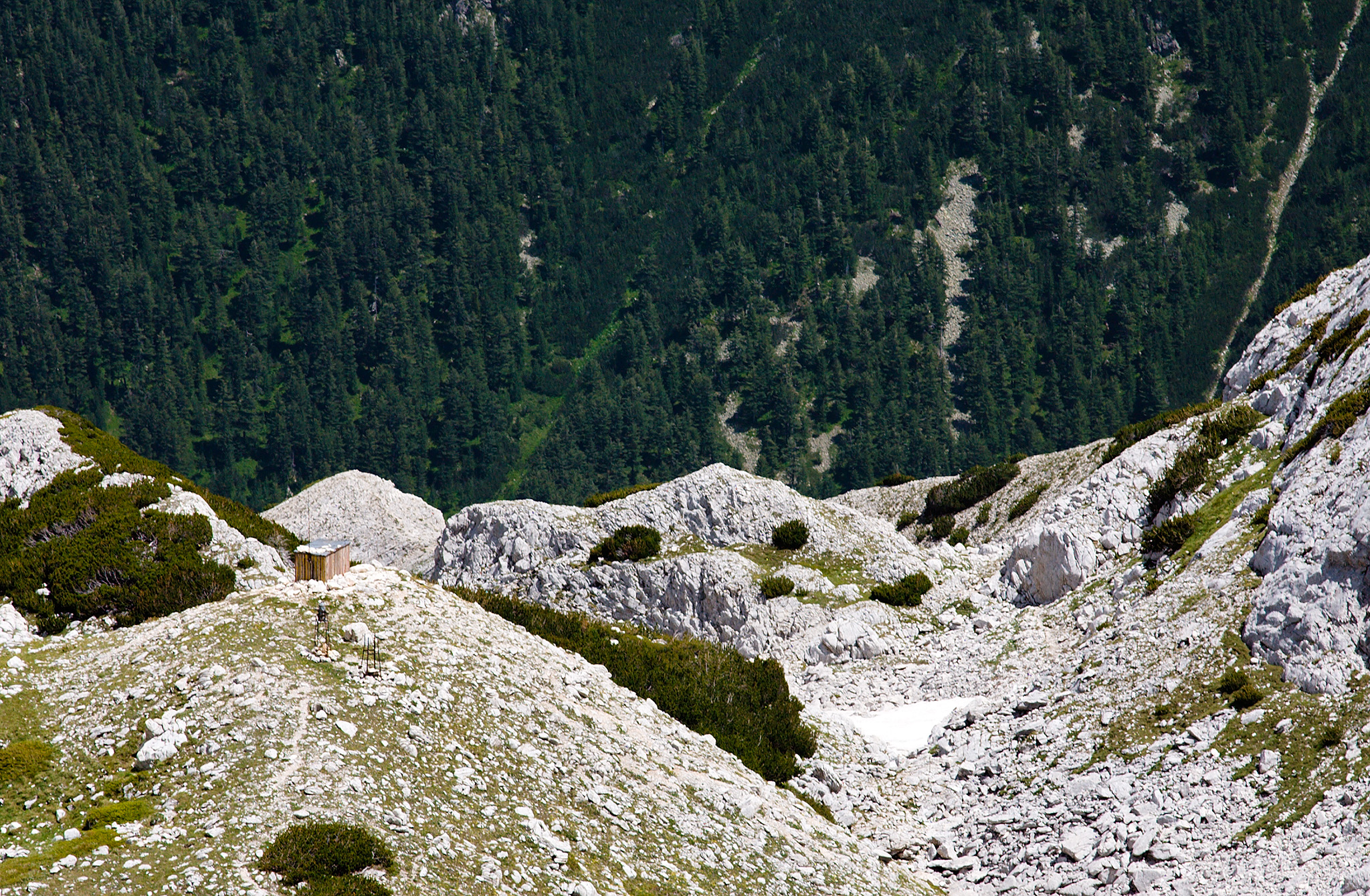 El-tepe alpine refuge in Pirin mountain, Bulgaria